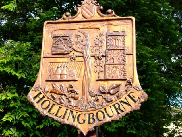 Hollingbourne Village Sign.